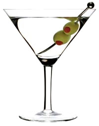 A classic martini.